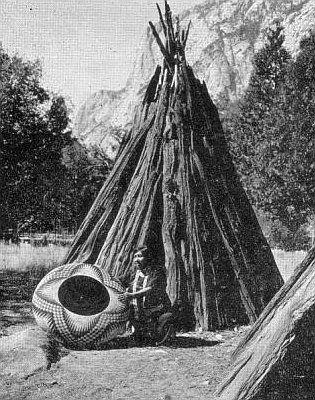 Mono Lake Paiute—Miwok artist Lucy Telles, "with her largest basket." Taken in Yosemite Valley, at Yosemite National Park.